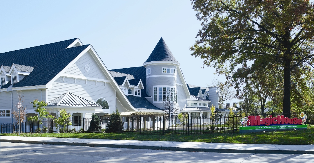 Exterior of TMH with sign